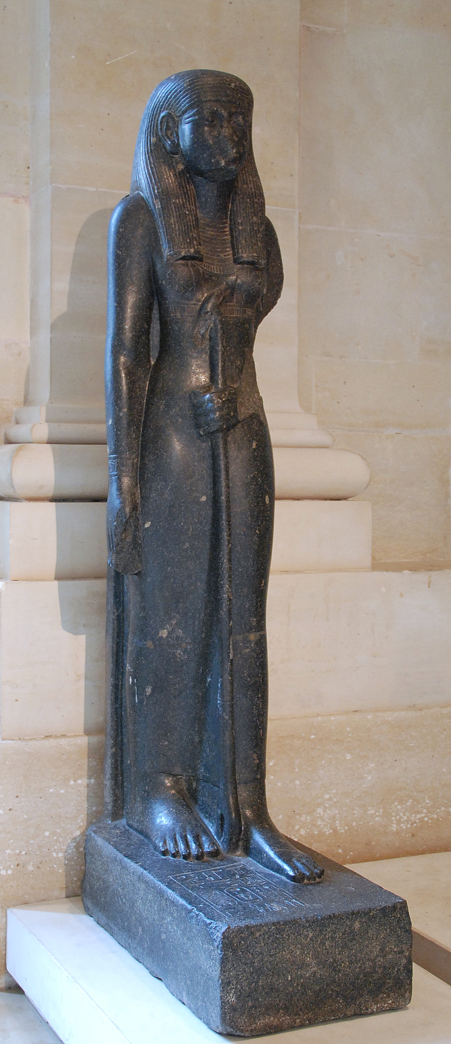 Goddess Nephtys, daughter of Osiris and Isis; reign of Amenhotep III (1391 - 1353 BC), 18th dynasty.